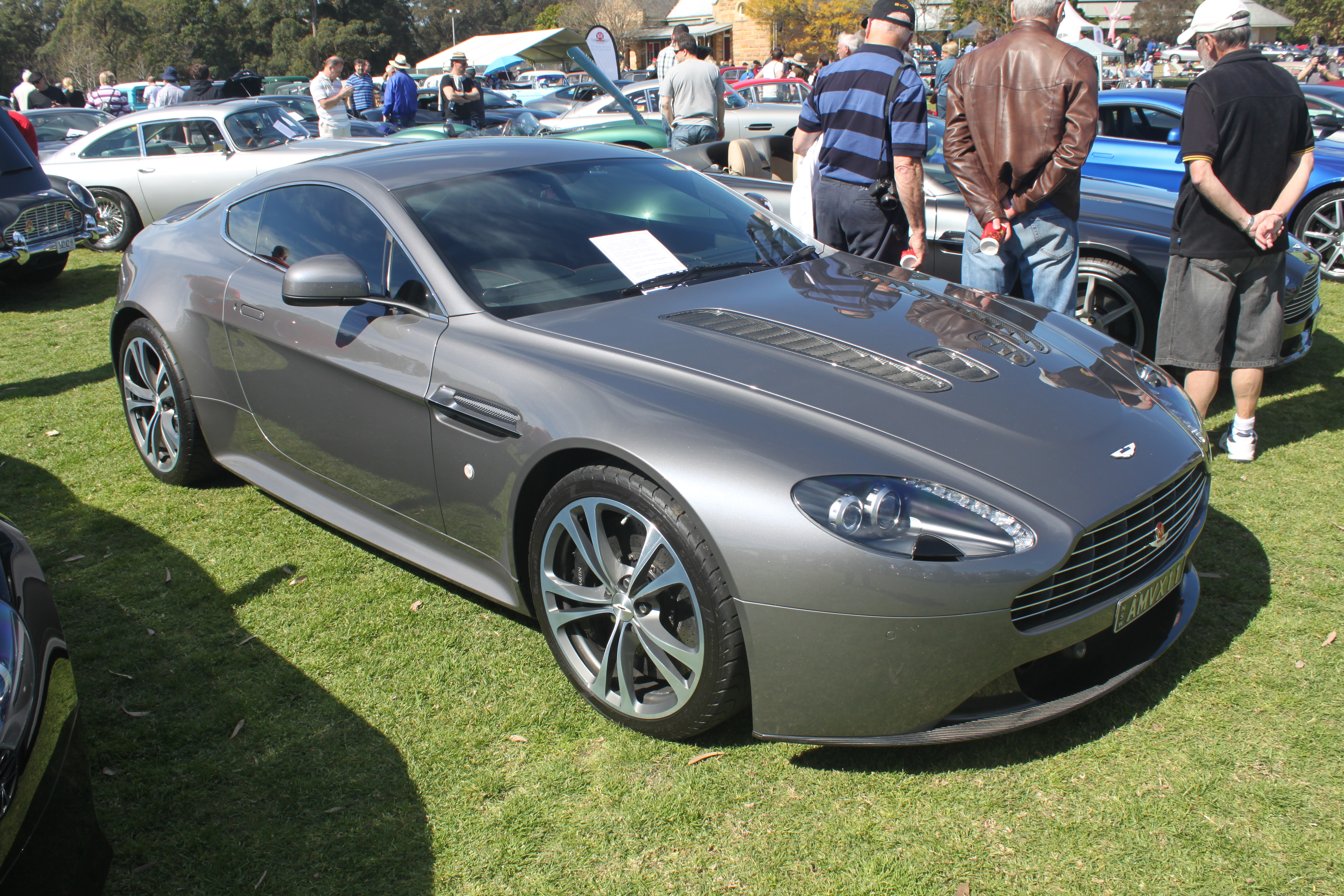 Aston Martin V12 Vantage